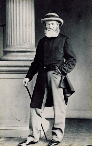 Photo of Herman Wilhelm Bissen (1798-1868).